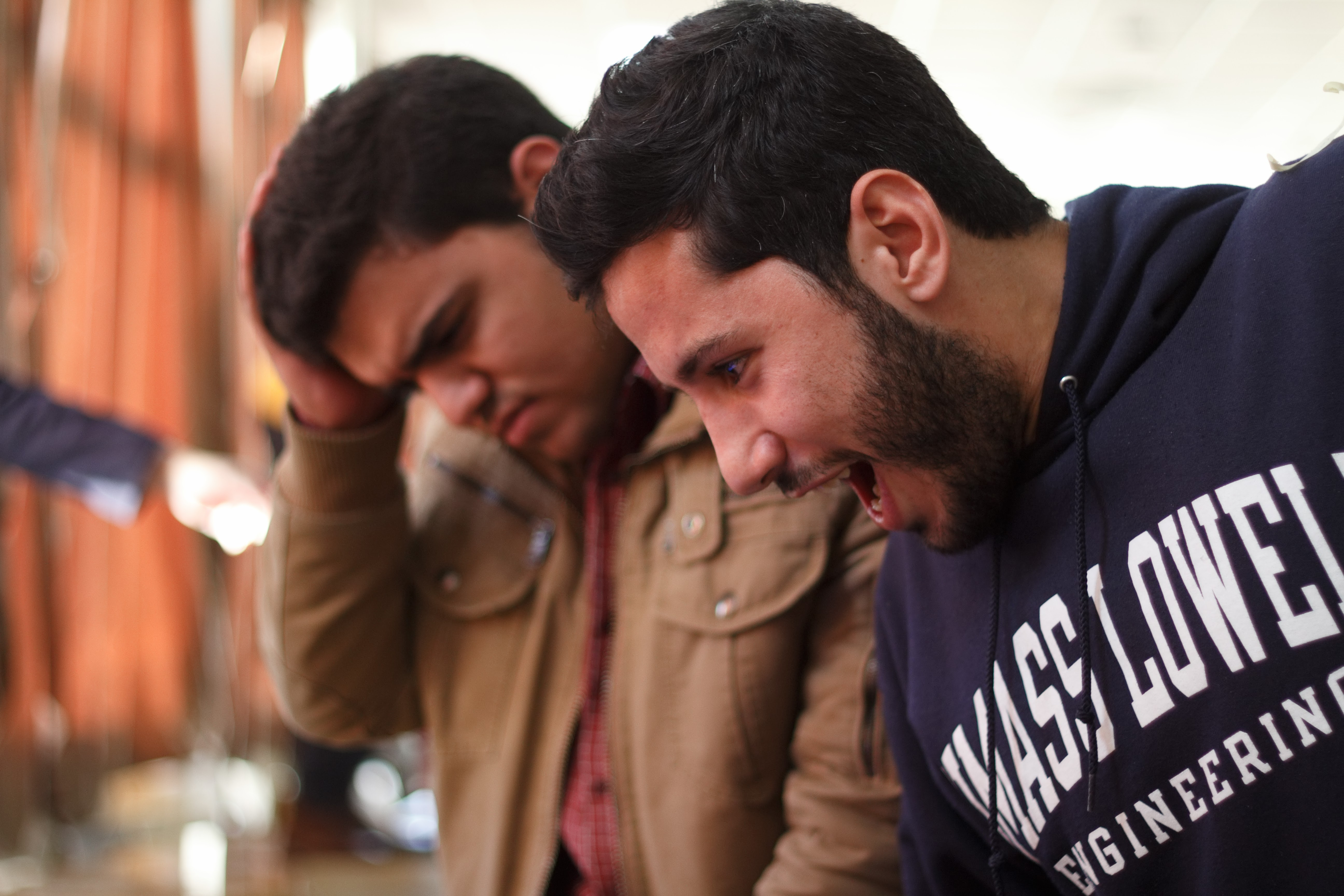 Mannequin challenge Done by 100+ Engineering Students at University of Jordan, Collaboration with Wikimedia Levant